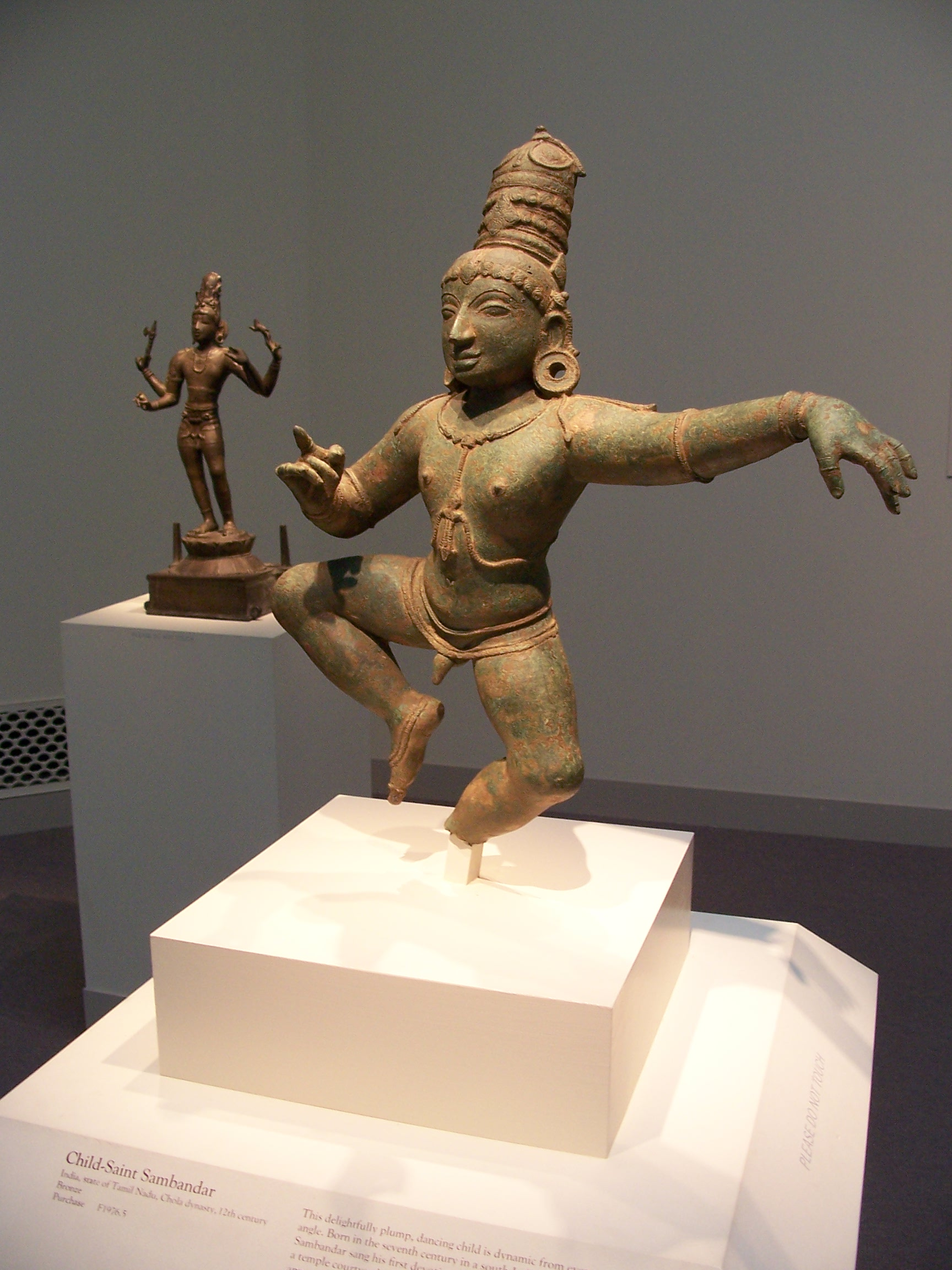 Chola dynasty, 12th century India Freer Gallery of Art, Washington DC